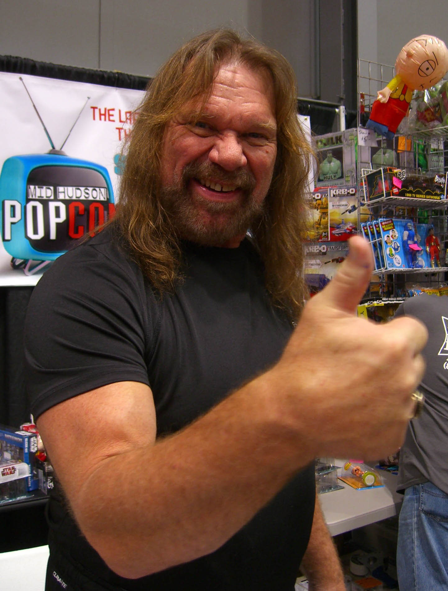 Professional wrestler "Hacksaw" Jim Duggan on Day 3 of the 2012 New York Comic Con, Saturday October 13, 2012 at the Jacob K. Javits Convention Center in Manhattan. This photo was created by Luigi Novi. It is not in the public domain, and use of this file outside of the licensing terms is a copyright violation.